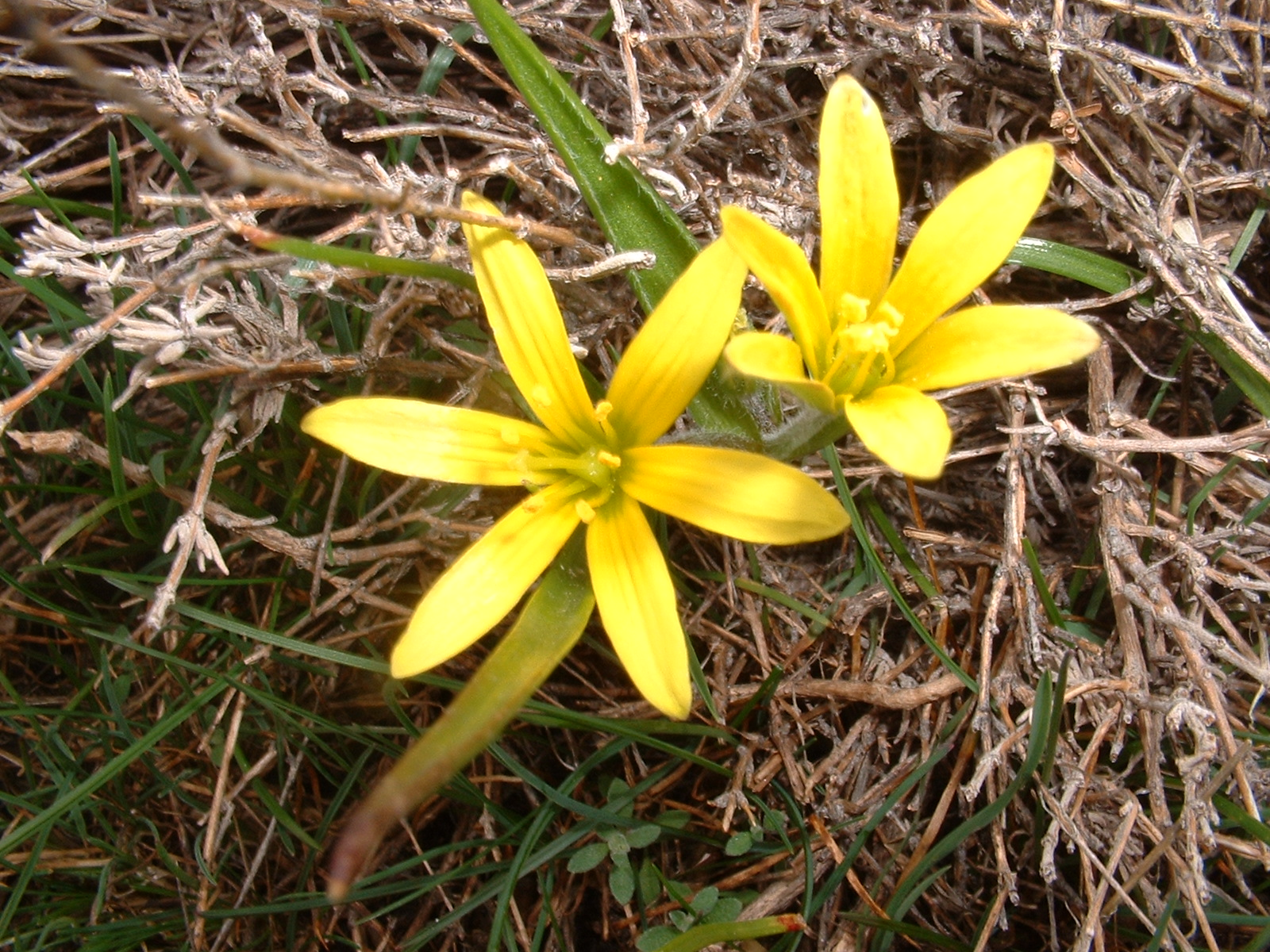 Flowers of Gagea sp., probably G. bohemica, photographed near Trevélez in the Alpujarras, province of Granada (Spain).